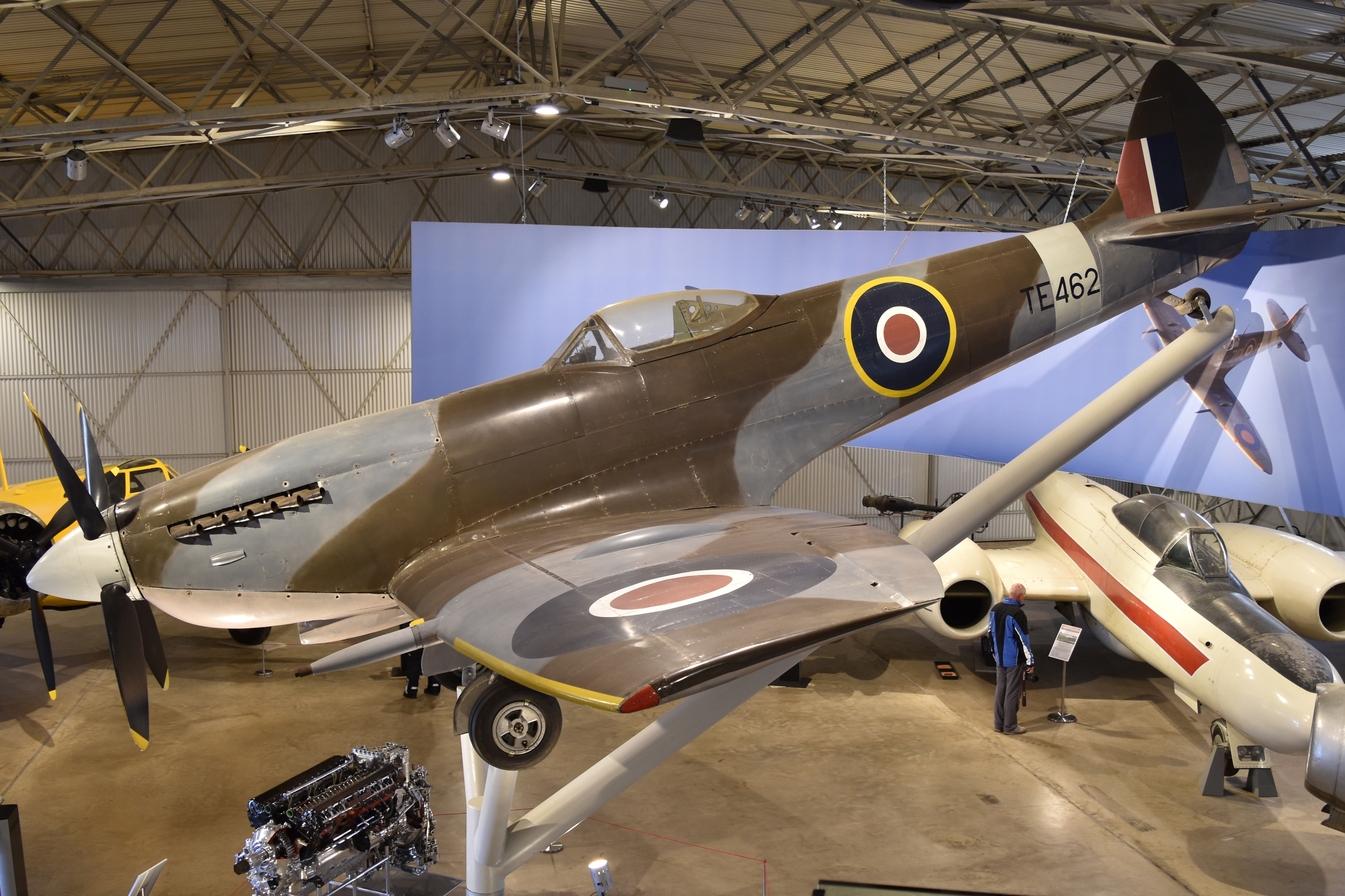 c/n CBAFIX4596. On display as the centrepiece of the Military Aviation Hangar at the National Museum of Flight (part of National Museums Scotland). East Fortune Airfield, East Lothian, Scotland. 13th September 2017